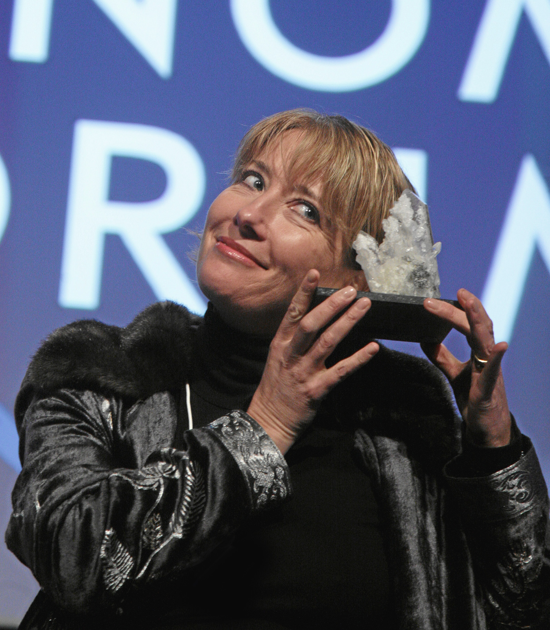 Emma Thompson, Actress and Writer, United Kingdom presents the award she was given during the 'Presentation of the Crystal Award' at the Annual Meeting 2008 of the World Economic Forum in Davos, Switzerland